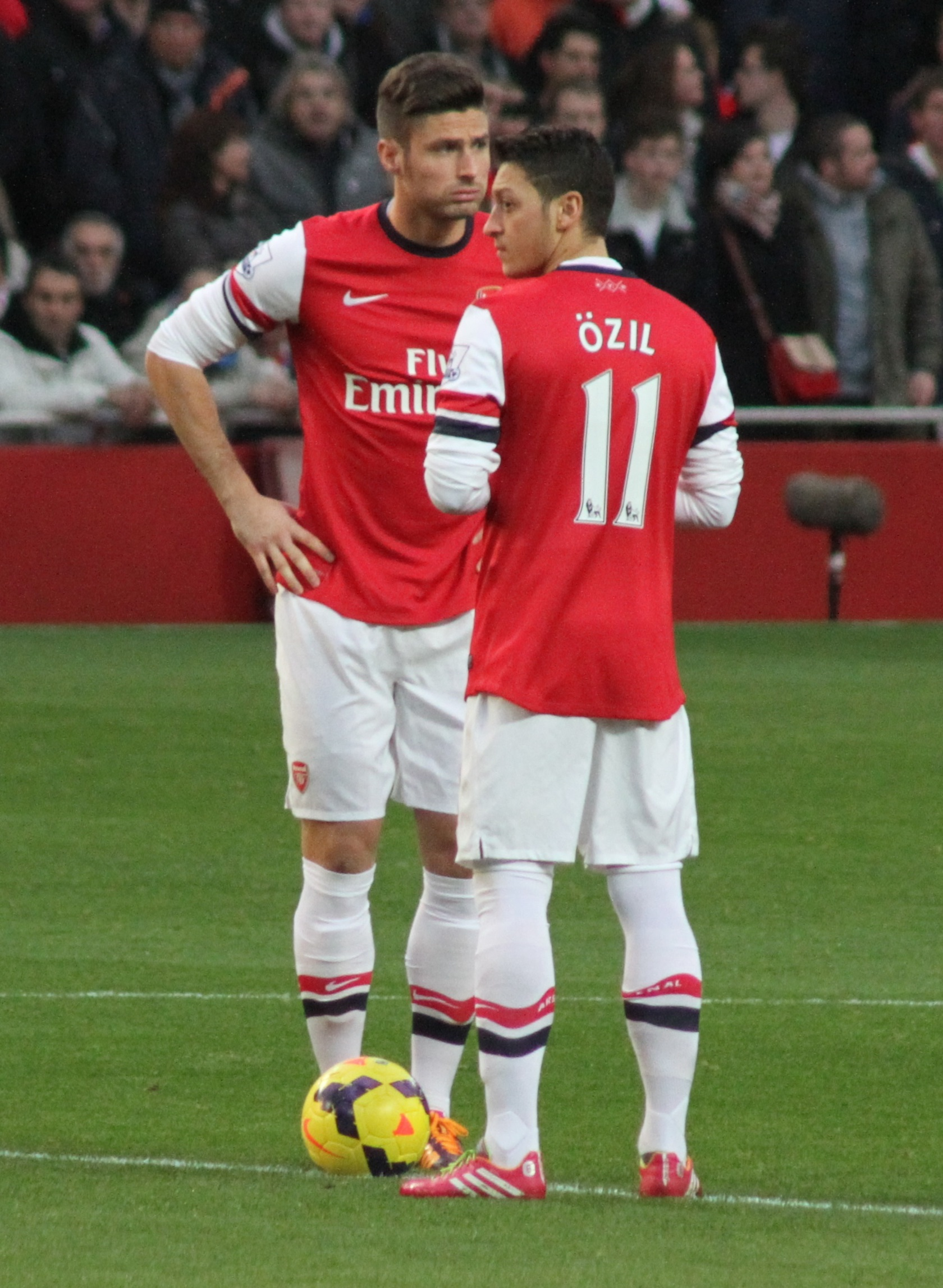 Olivier Giroud and Mesut Özil of Arsenal before kick-off against Southampton on 23 November 2013.